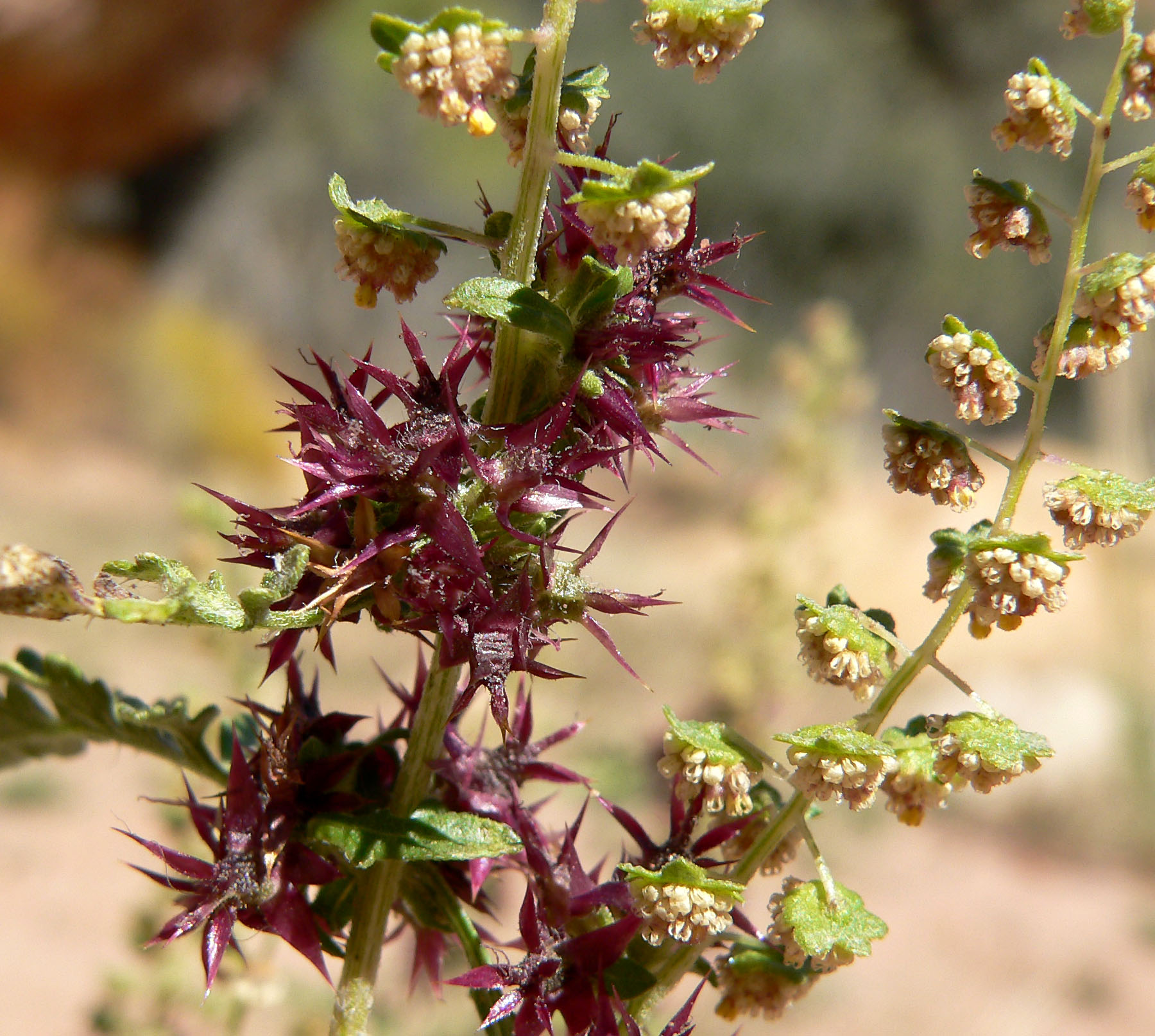 Ambrosia dumosa with purple fruits in Pine Creek Canyon, Red Rock Canyon, southern Nevada